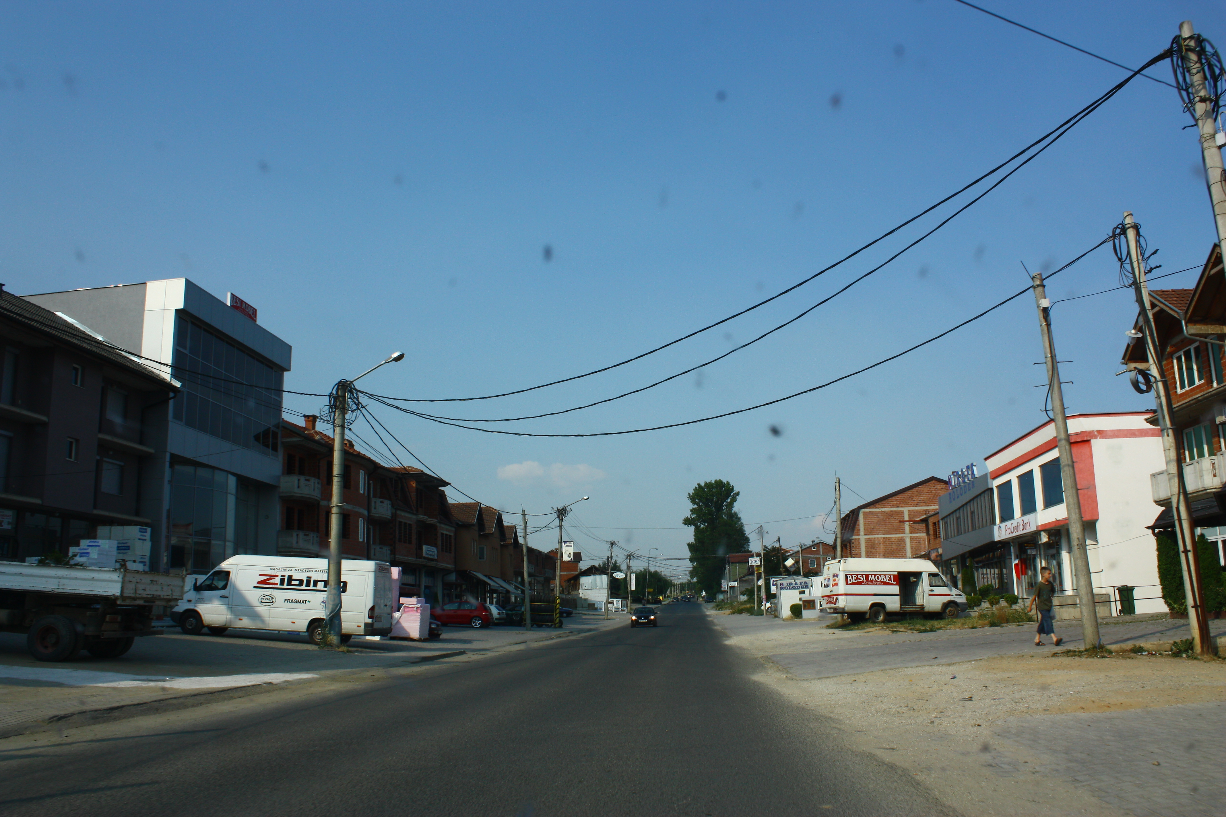 Poroj, Macedonia